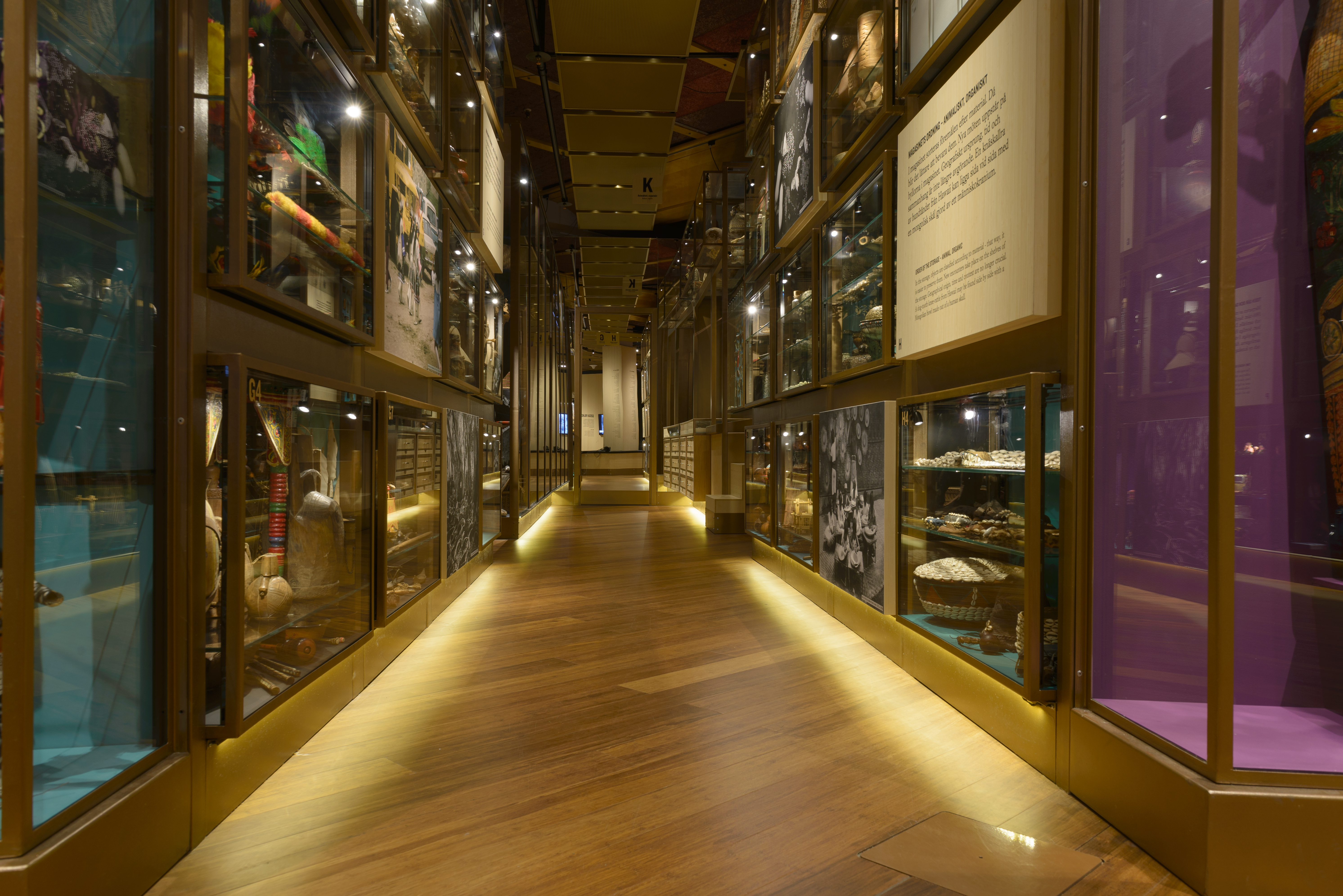 Open storage at the Museum of Ethnography in Stockholm (Etnografiska Museet).